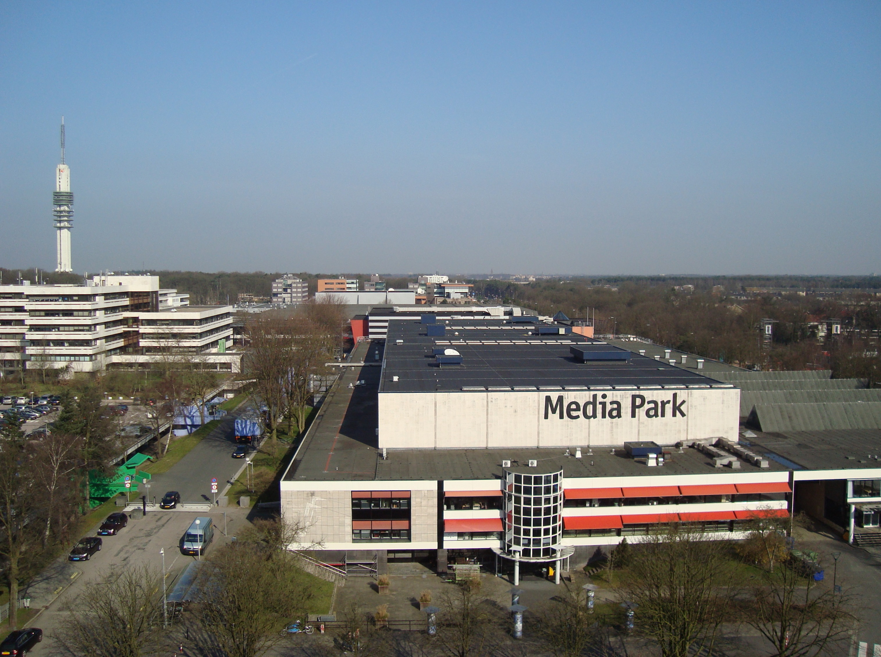 Overview Media Park in Hilversum, image is taken from the roof of the Dutch Institute of Sound and Vision.